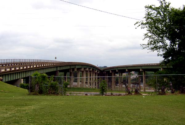 Hugh R. Thomas Bridge from Alabama State Route 215 to the south in Tuscaloosa, Alabama, USA.